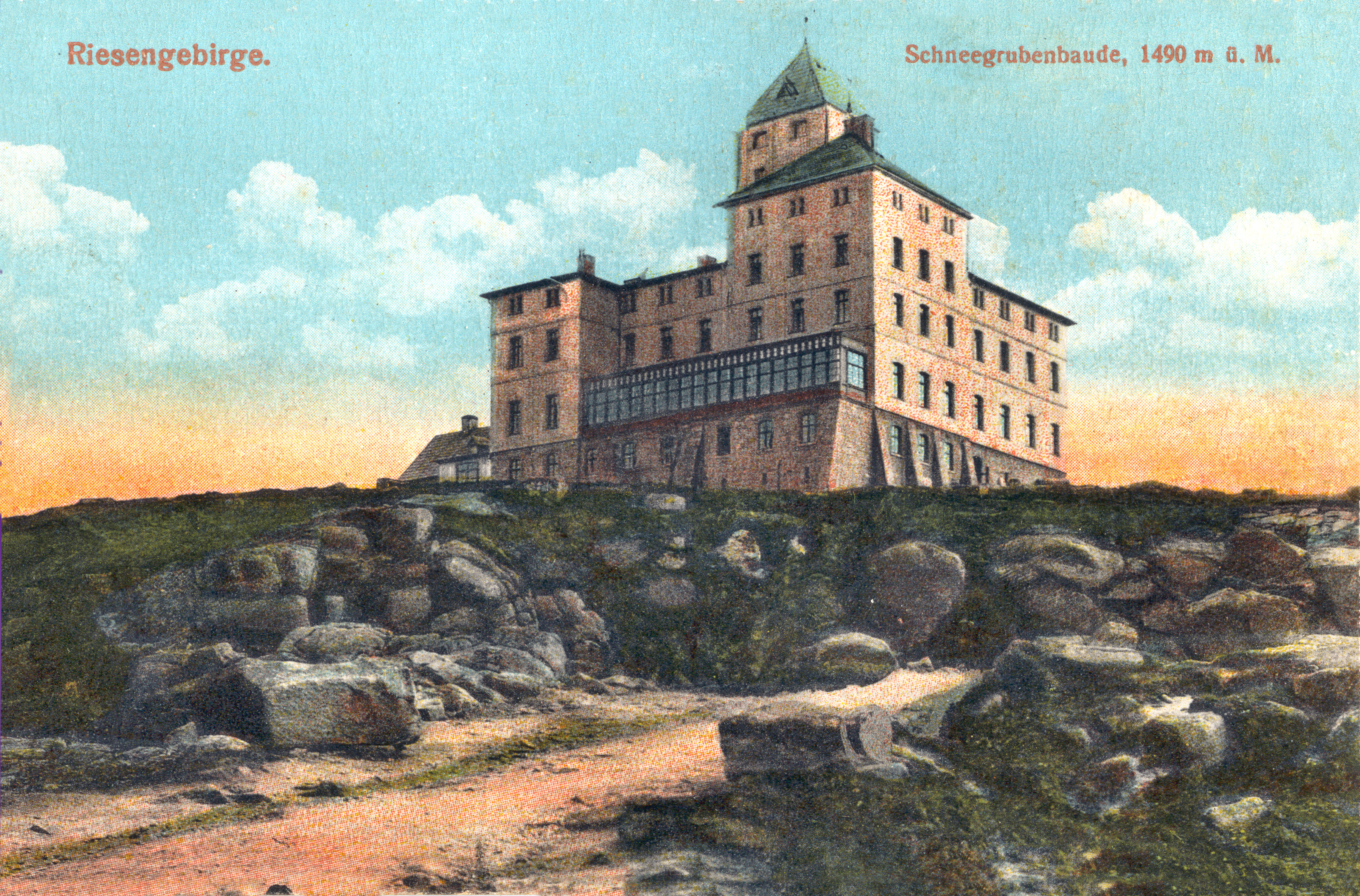 Sniezne Kotly (germ. Schneegruben), Karkonosze Mountains, Germany now Poland.